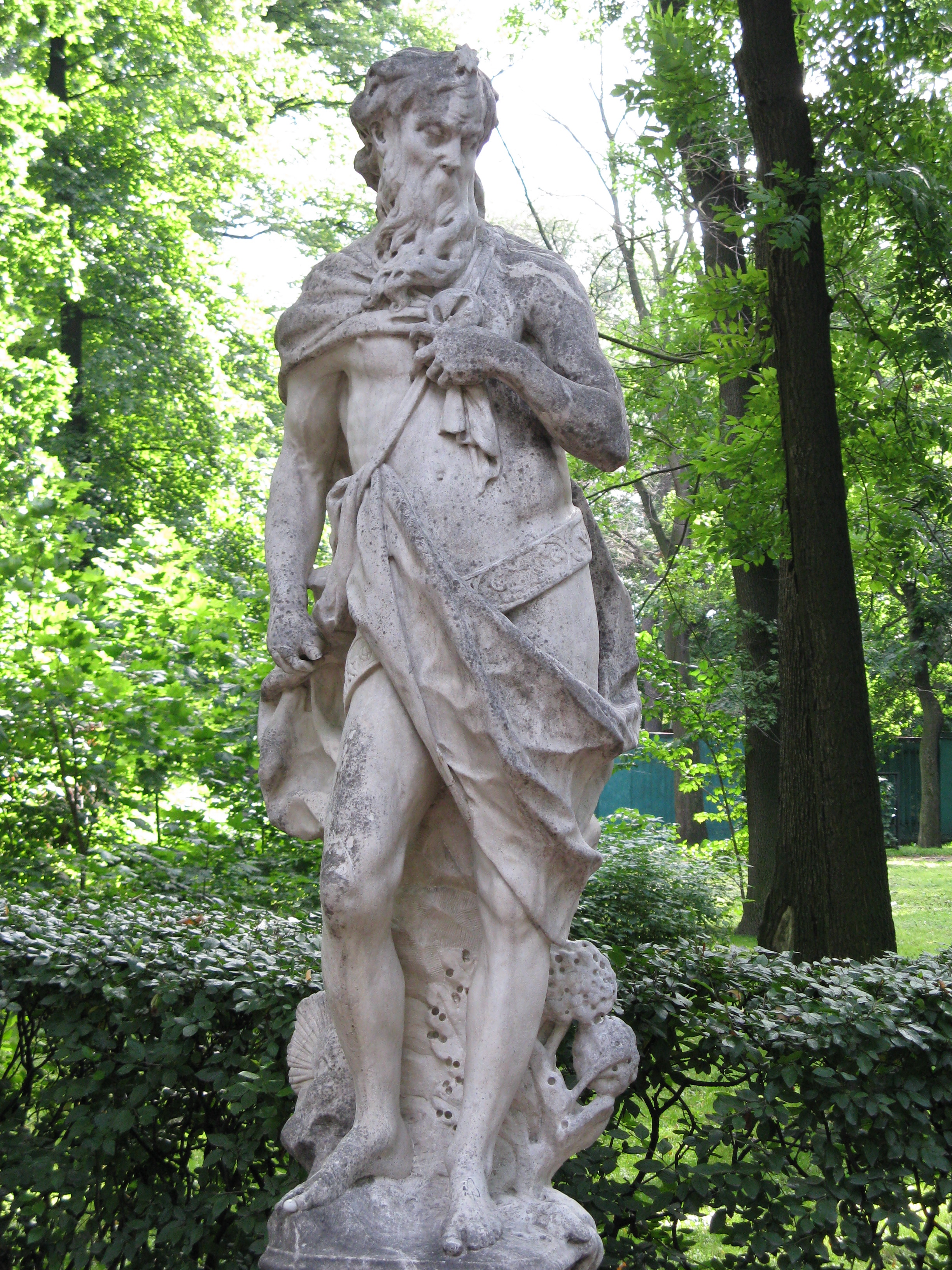 Sunset as as an old man by Giovanni Bonazza. 1717 at Summer Garden.